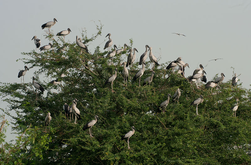 Asian Openbill Anastomus oscitans in Uppalapadu, Andhra Pradesh, India.